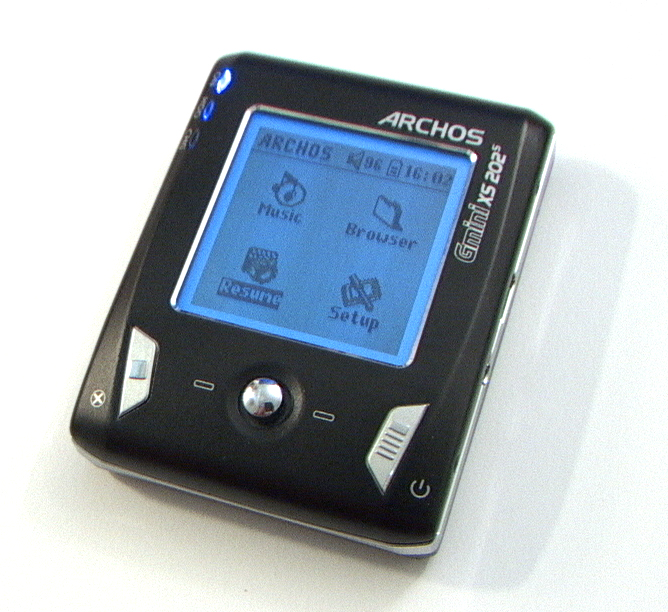 An Archos Gmini XS202s MP3 Jukebox